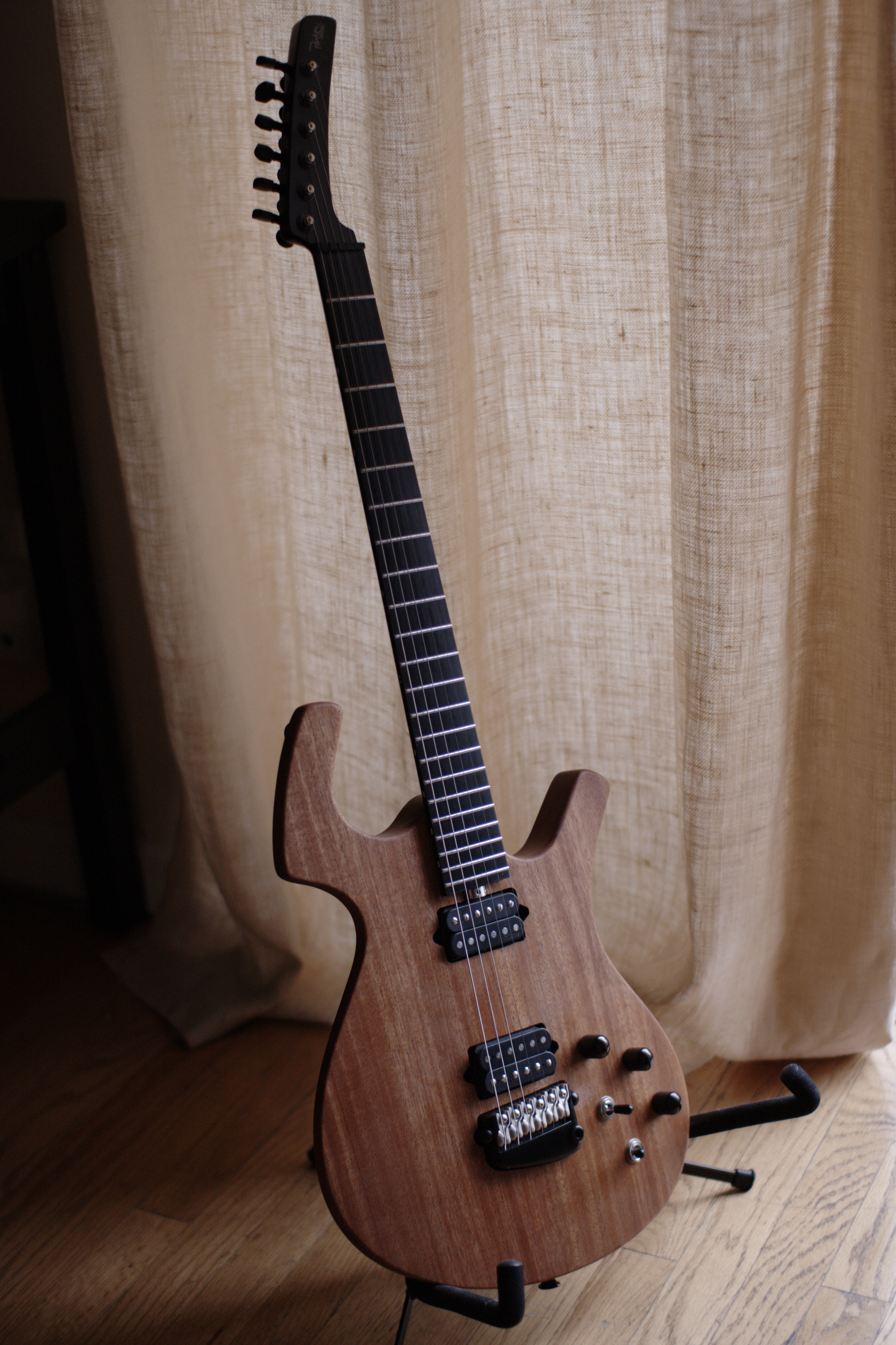 Parker NiteFly-M (2008) full review posted here.